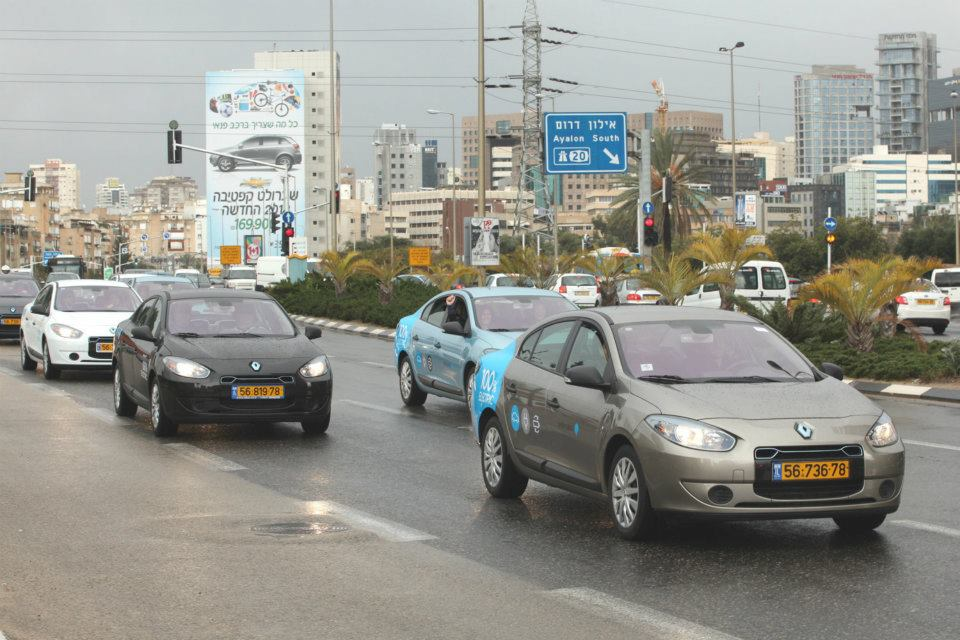 Parade of Renault Fluence ZE electric cars commemorating the first deliveries to Better Place employees in Israel